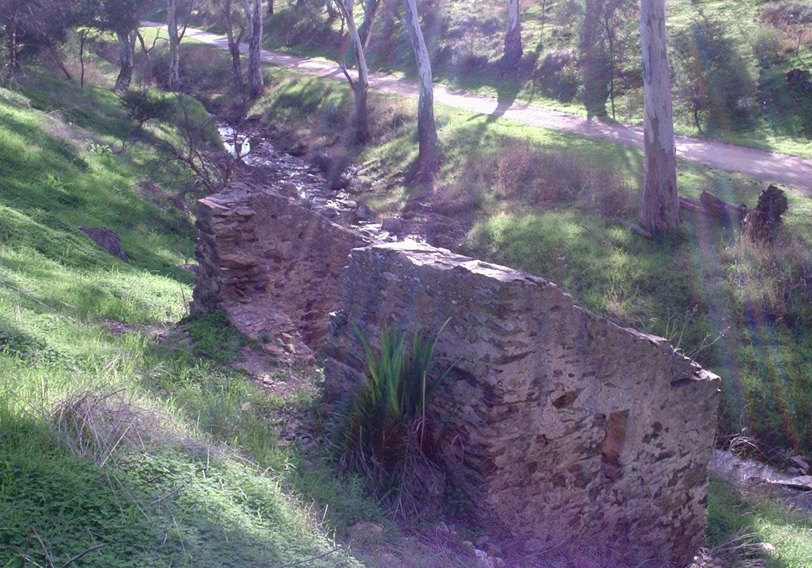 Photo is of the old pump house, from RM williams old property, on the banks of dry creek, walkley heights, south australia.